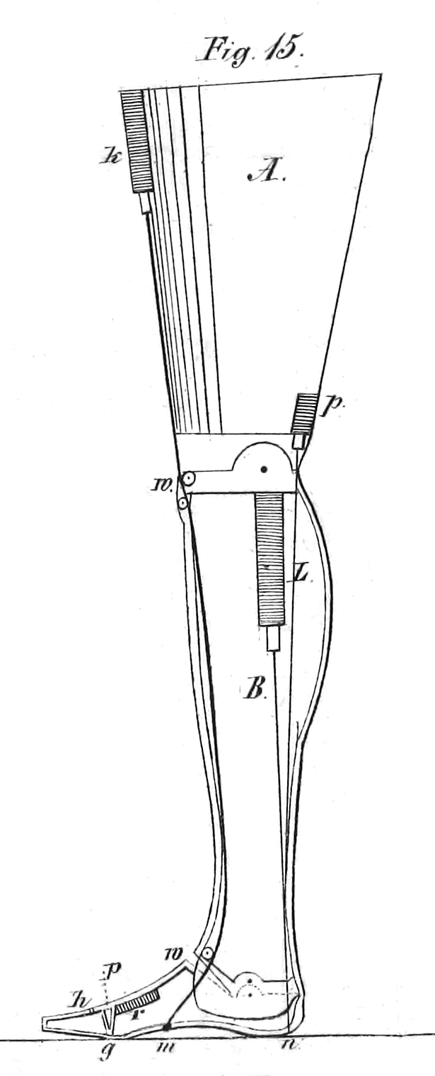 Artificial leg develloped and patented by Margarethe Caroline Eichler of Berlin, Germany.